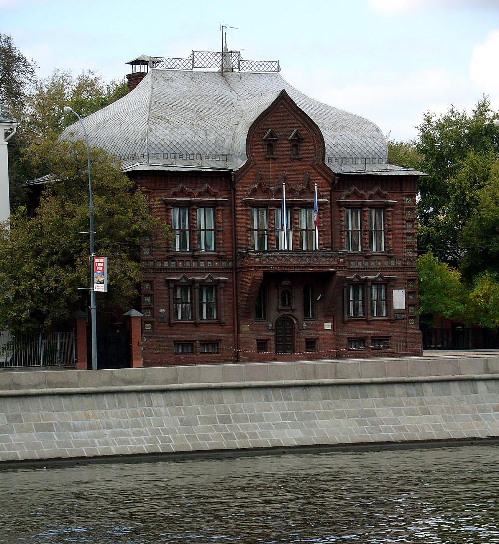 Tsvetkov's Gallery, designed by Victor Vasnetsov and Boris Schnaubert. Prechistenskaya Embankment in Khamovniki district of Moscow. Tsvetkov commissioned the building to house his growing collection of art. At first he hired Lev Kekushev, but eventually the building was built to the design of Victor Vasnetson (exterior styling) and Boris Schnaubert (floorplans, engineering, execution). Now used as a residence of the Ambassador of France.